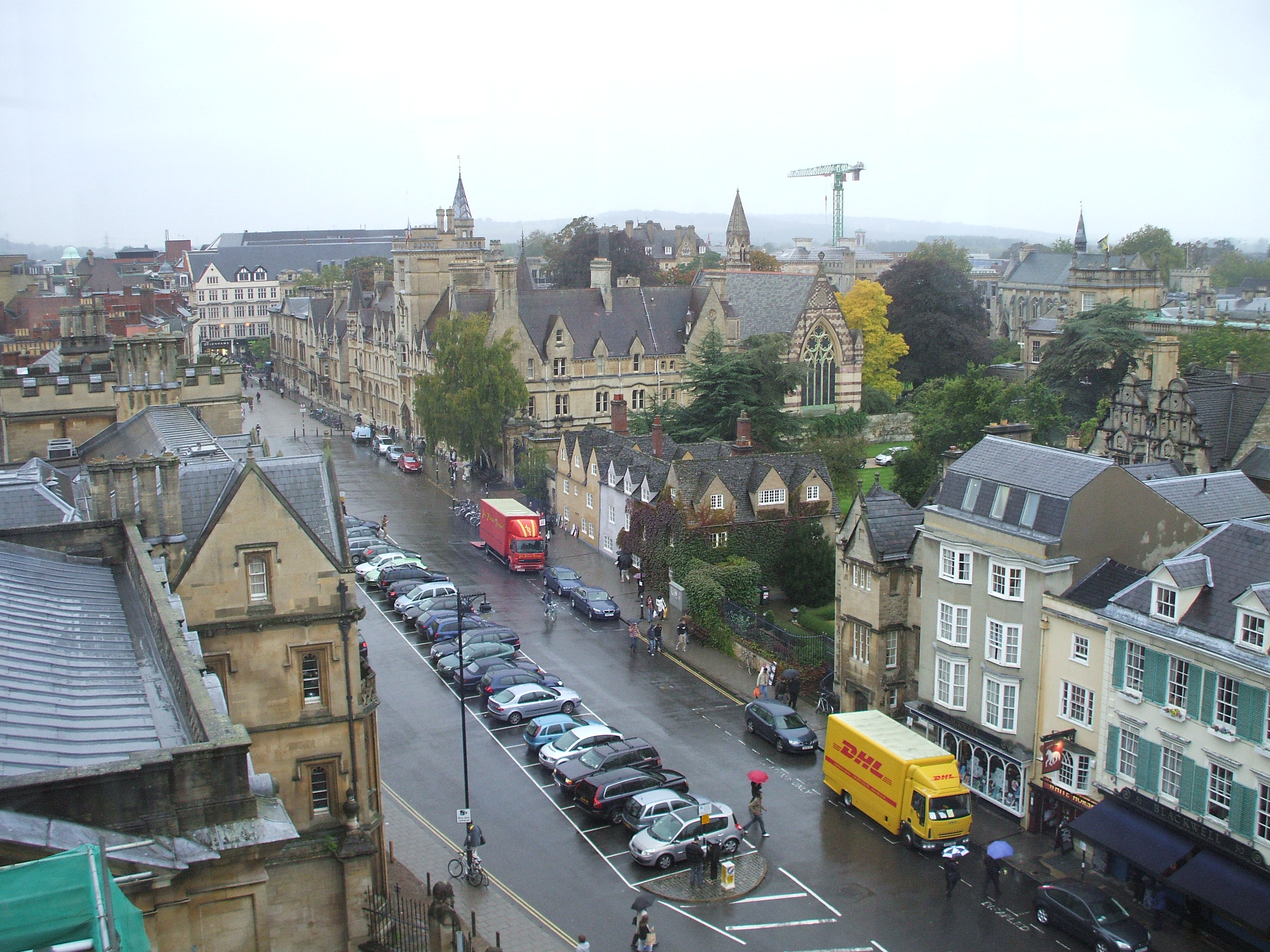 Broad Street, Oxford, England looking west from the Sheldonian Theatre.